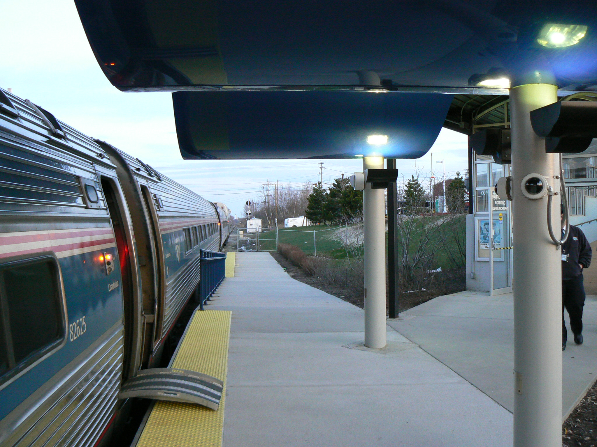 A Downeaster in Portland, Maine.